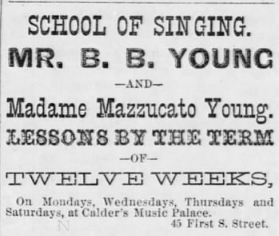 Text of advertisement: "School of Singing Mr. B. B. Young and Madame Mazzucato Young Lessons by the Term of Twelve weeks, On Mondays, Wednesdays, Thursdays, and Saturdays, at Calder's Music Palace, 45 First S. Street.